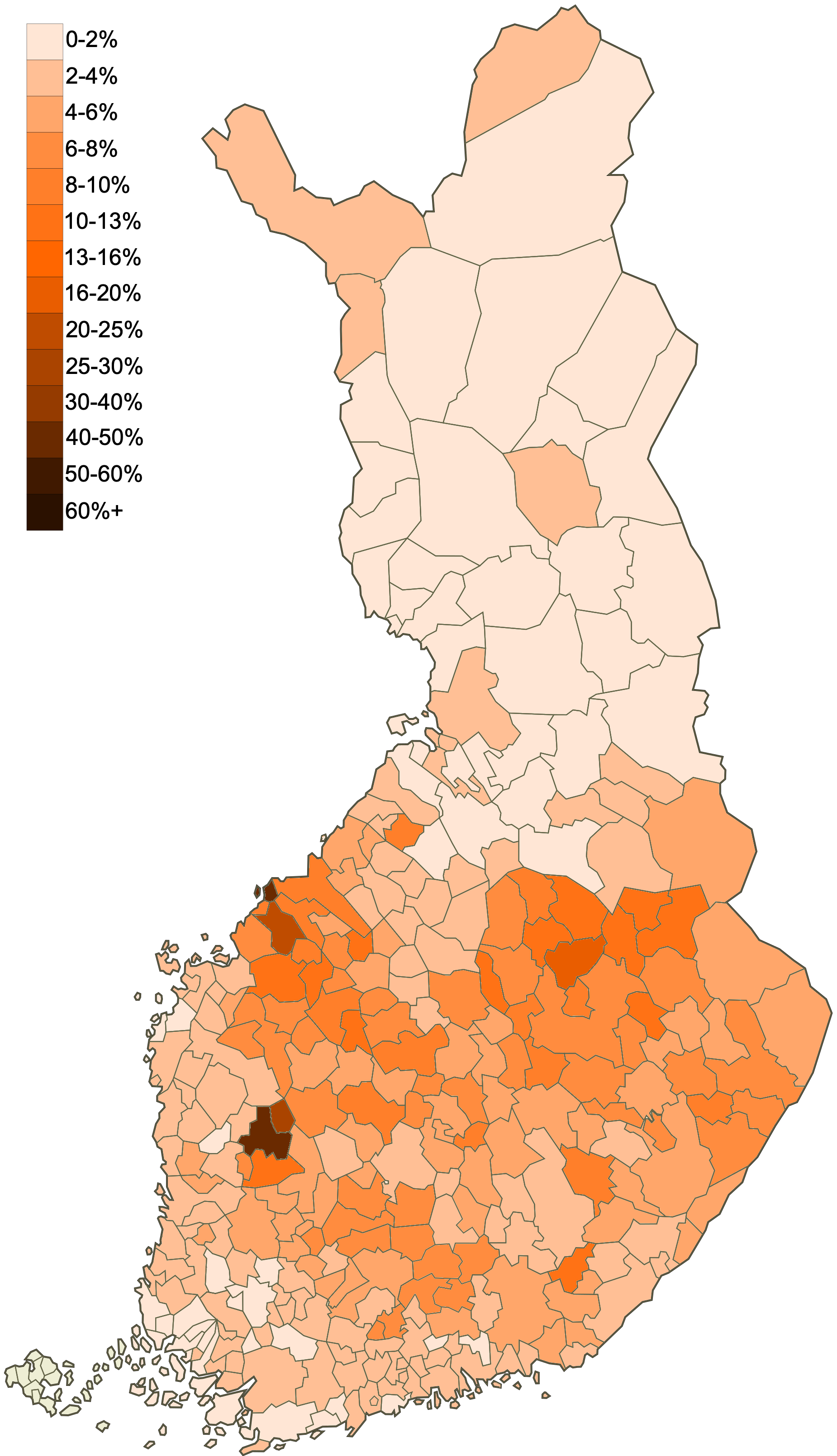 Support for the Christian Democrats by municipality in the election for the Eduskunta.